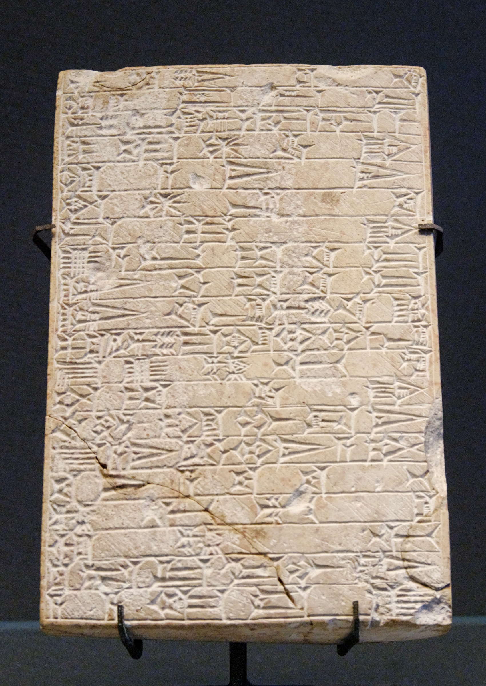 Foundation tablet of the temple of Ninisina in Larsa, dedicated by Warad-Sin, king of Larsa. Limestone, ca. 1830 BC. From Larsa.